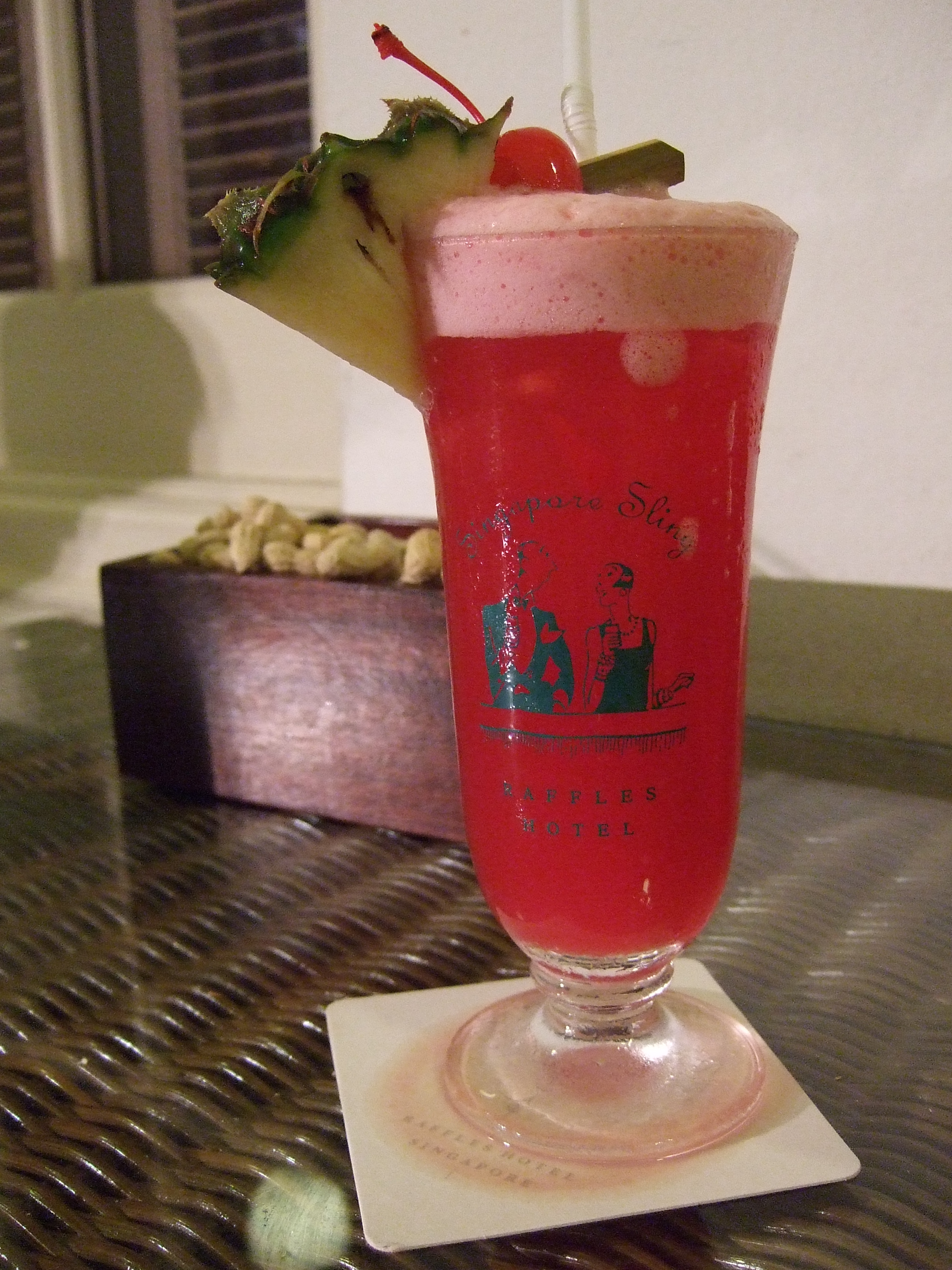 Singapore Sling, cocktail from the Raffles hotel.